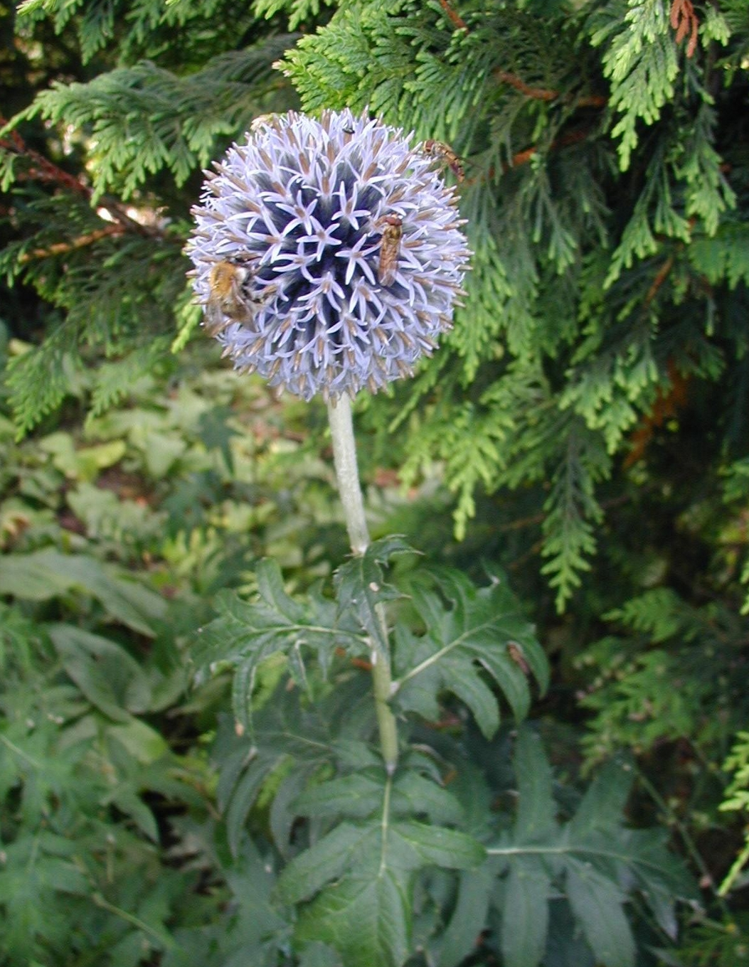 Echinops ritro: Flower head